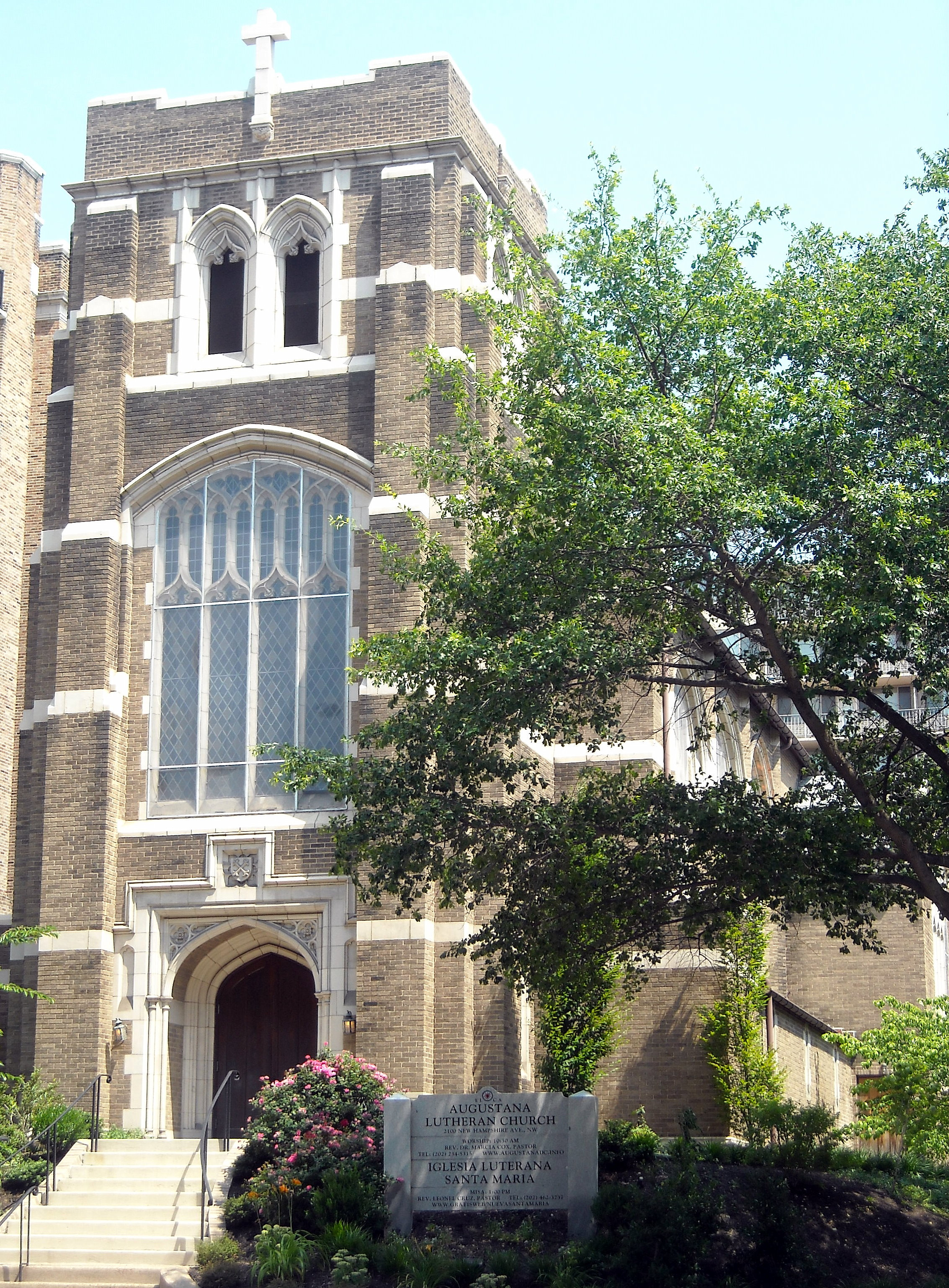 Augustana Lutheran Church at 2100 New Hampshire Ave, NW in Washington, D.C.